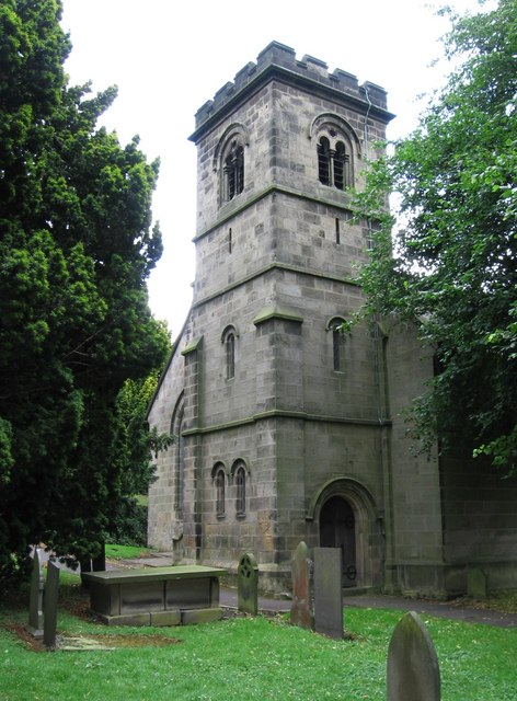 West tower of St Paul's parish church, Little Eaton, Derbyshire, seen from the southwest